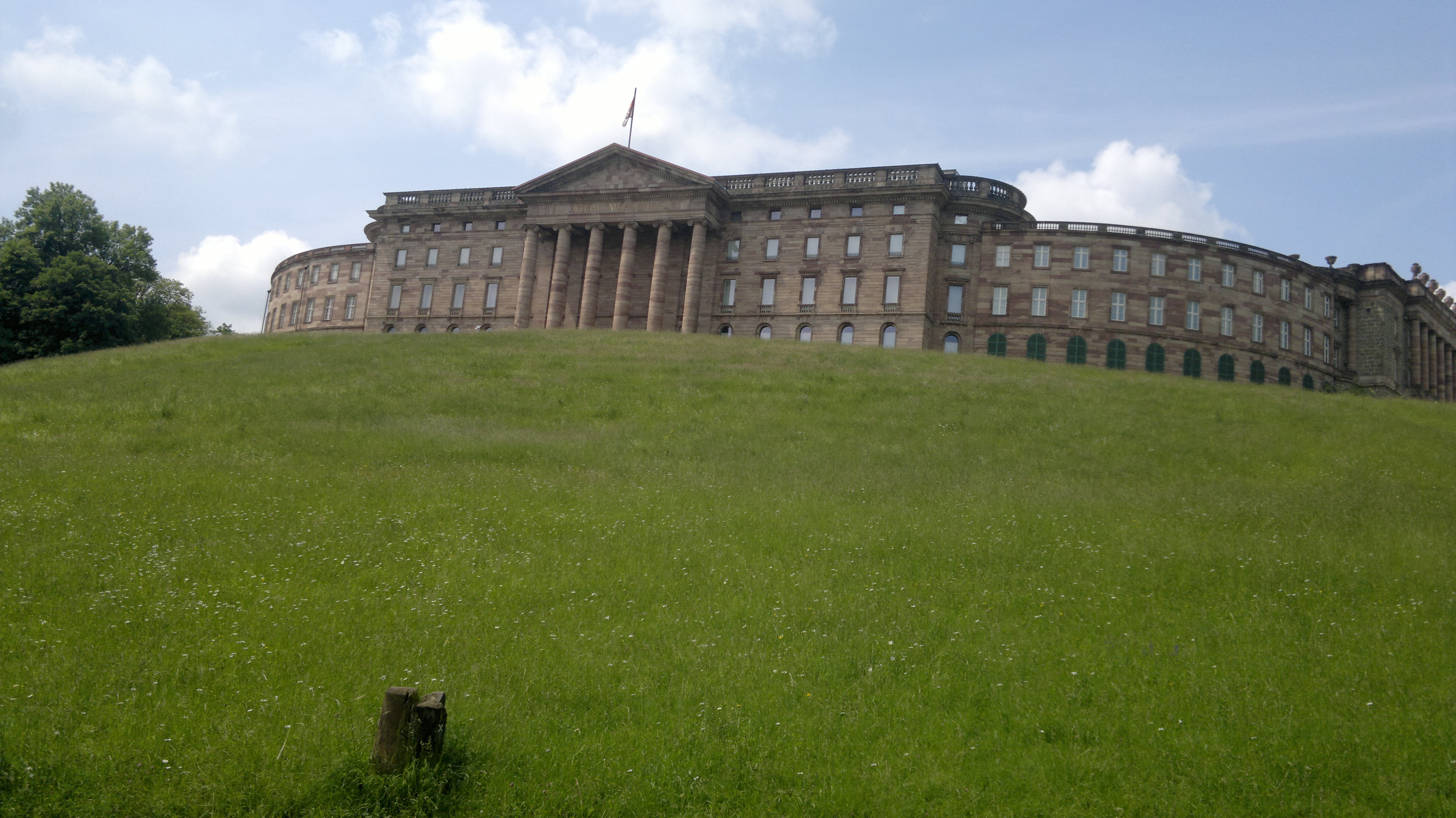 Kassel Schloss vWilhelmshöhe